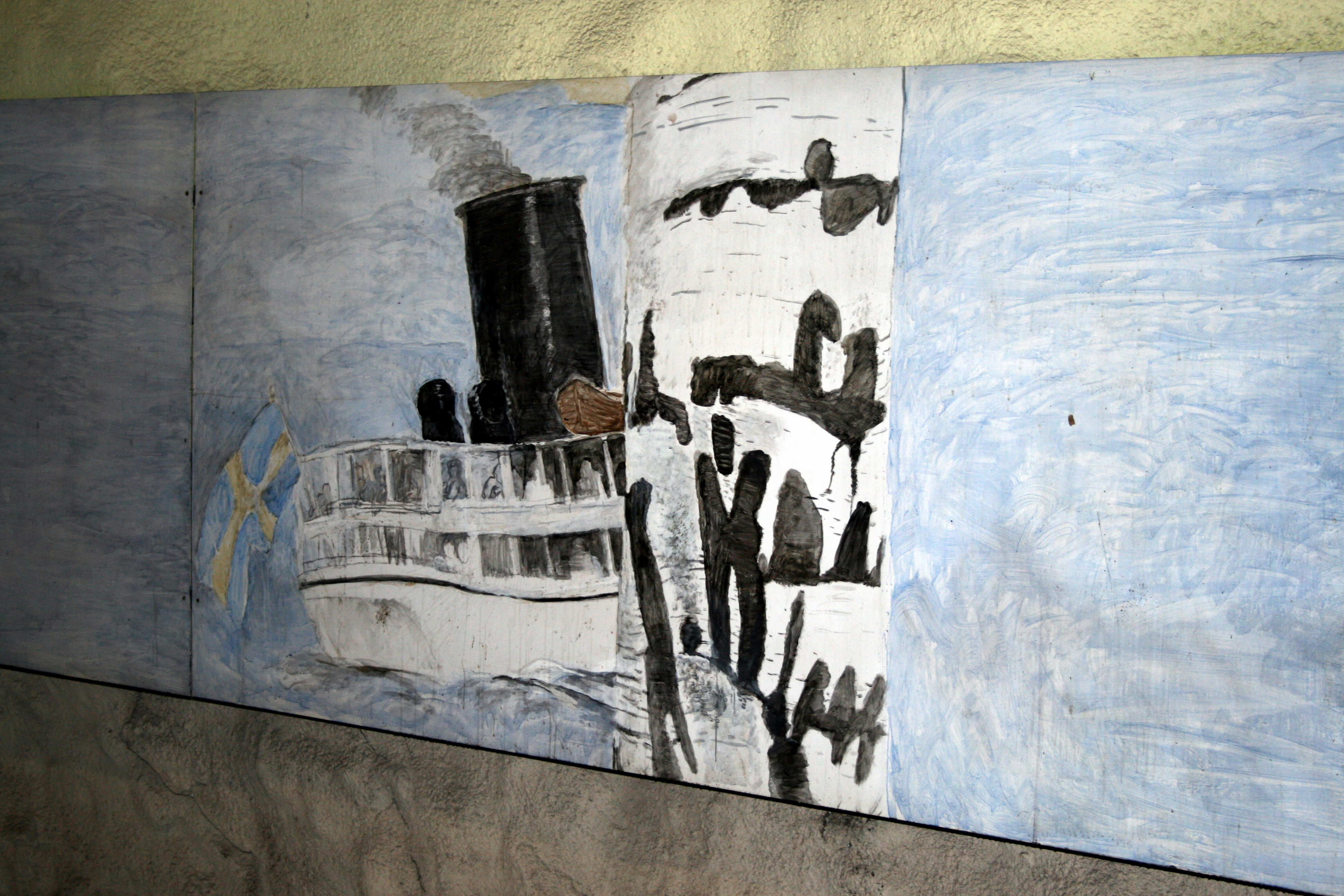 Artwork at the Stockholm metro station Husby